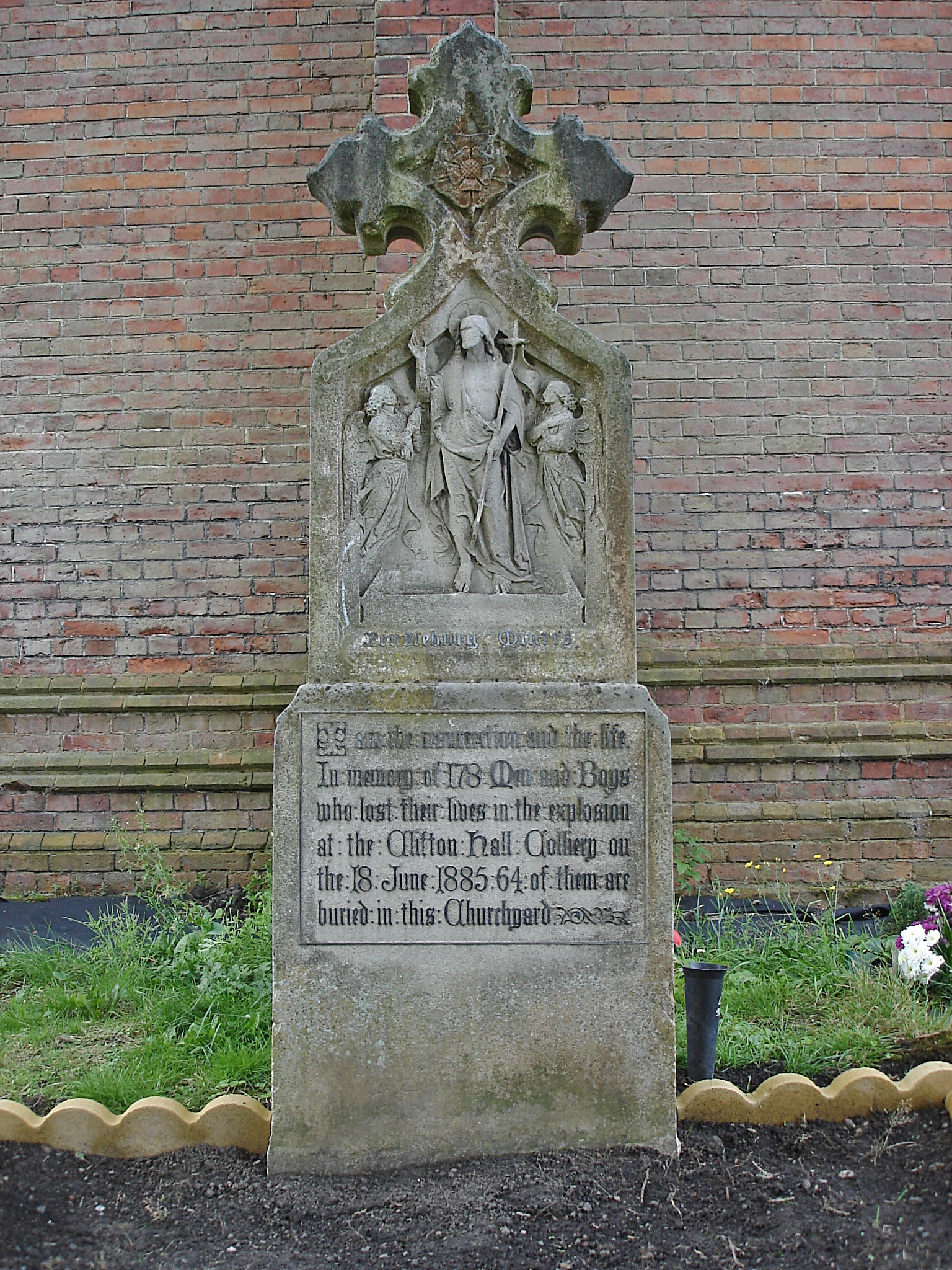 Memorial outside St Augustine's church, Pendlebury to the 178 men and boys killed in the explosion at Clifton Hall colliery on 18 June 1885. 64 bodies are buried in the St Augustine churchyard.